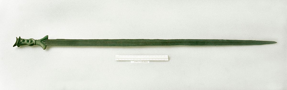 Sørumsverdet, bronze sword from central Europe, found in Sørum, Oppland, Norway.